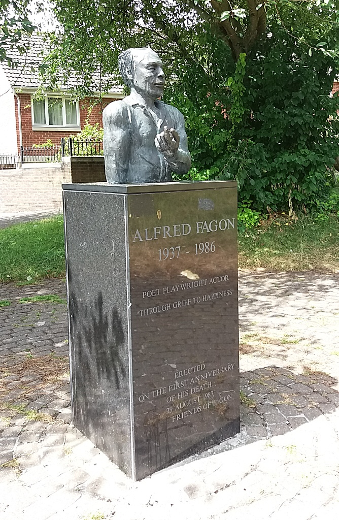 Photographers caption: Bust of Alfred Fagon A local poet, who died in 1986 aged 49, honoured by this sculpture in Grosvenor Street Triangle.